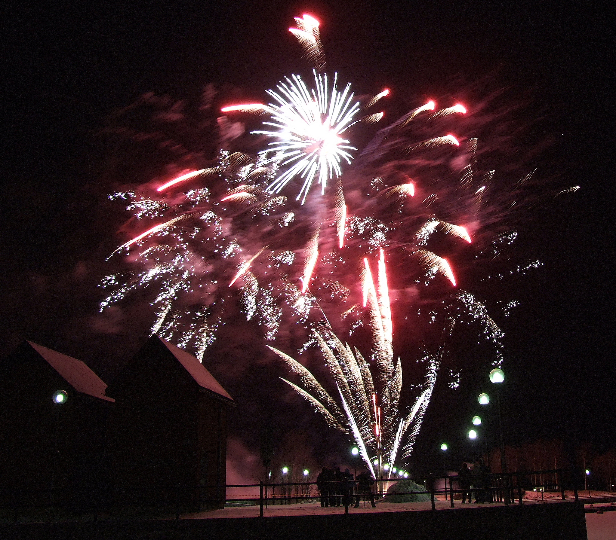 The New Year's Eve fireworks in Oulu